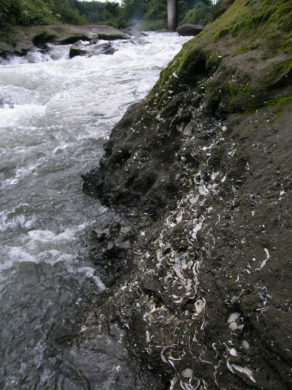 Omma Formation saigawa omma-kaigarabashi